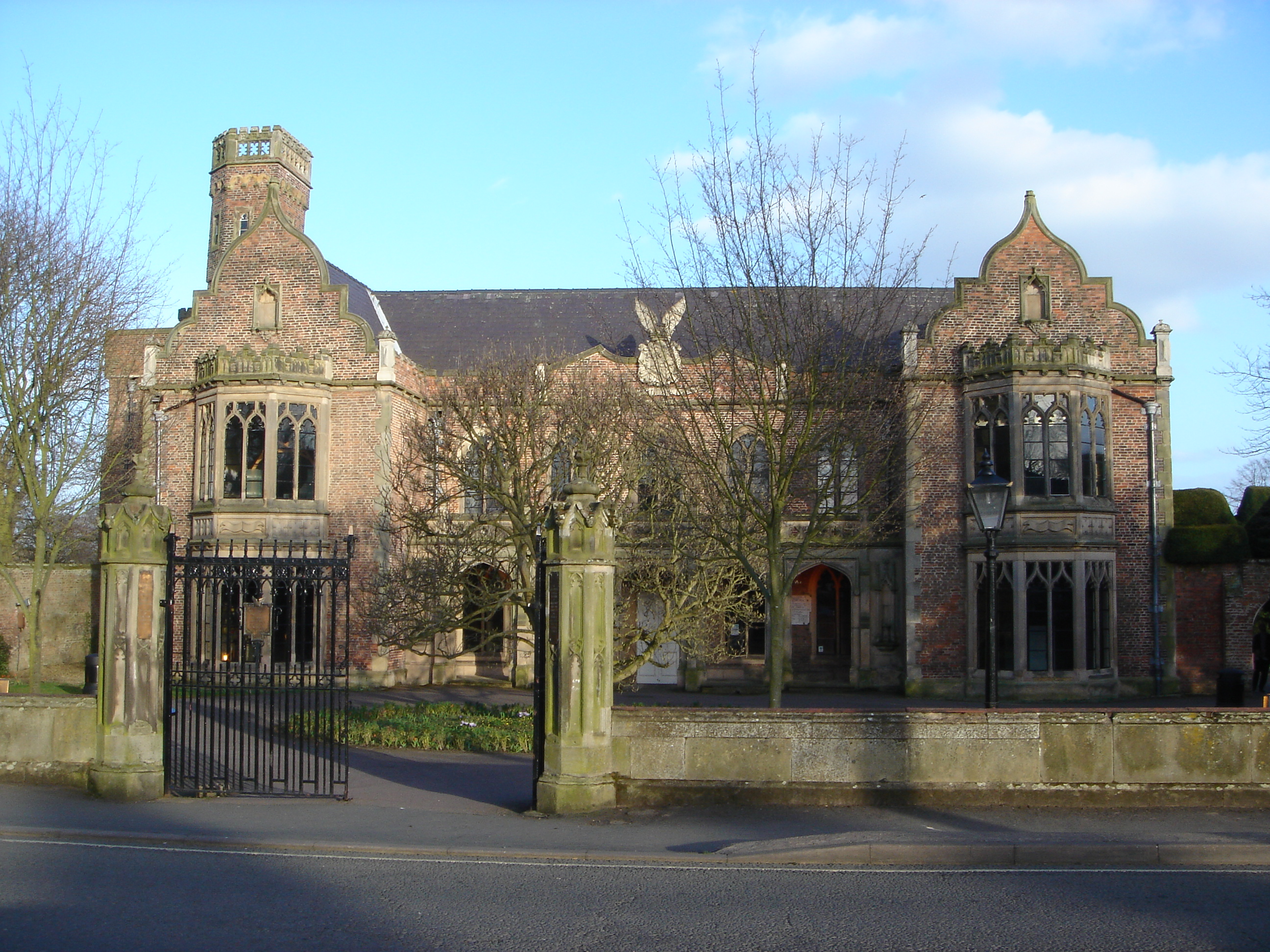 Ayscoughfee Hall Museum, Spalding, Lincolnshire, England